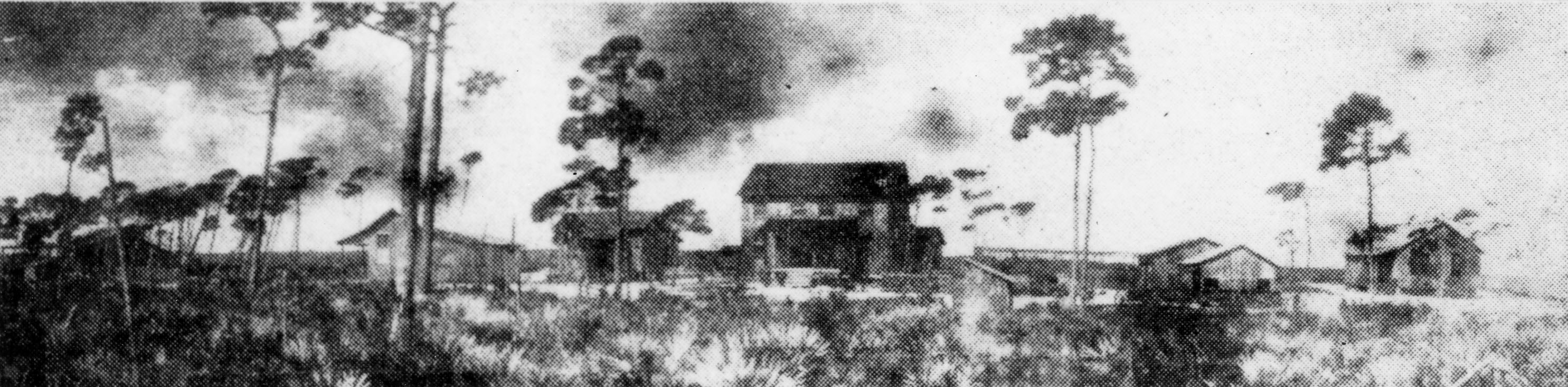 Yamato Colony 1908 with two-story house of founder Jo Sakai. Info from Yamato and Remembering